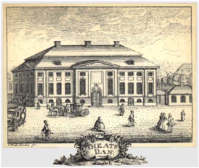 The Royal Danish Theatre, Copenhagen (demolished)